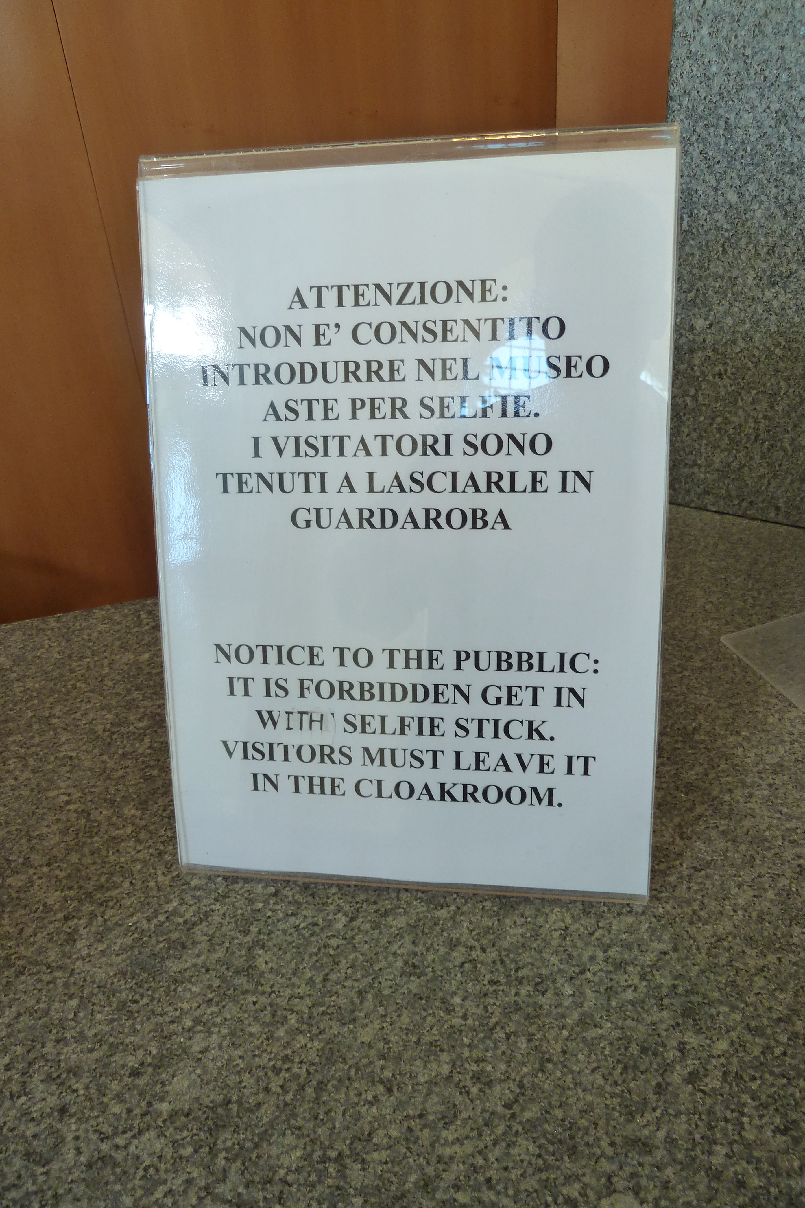 Ban of selfie-sticks at the Baths of Diocletian in Rome